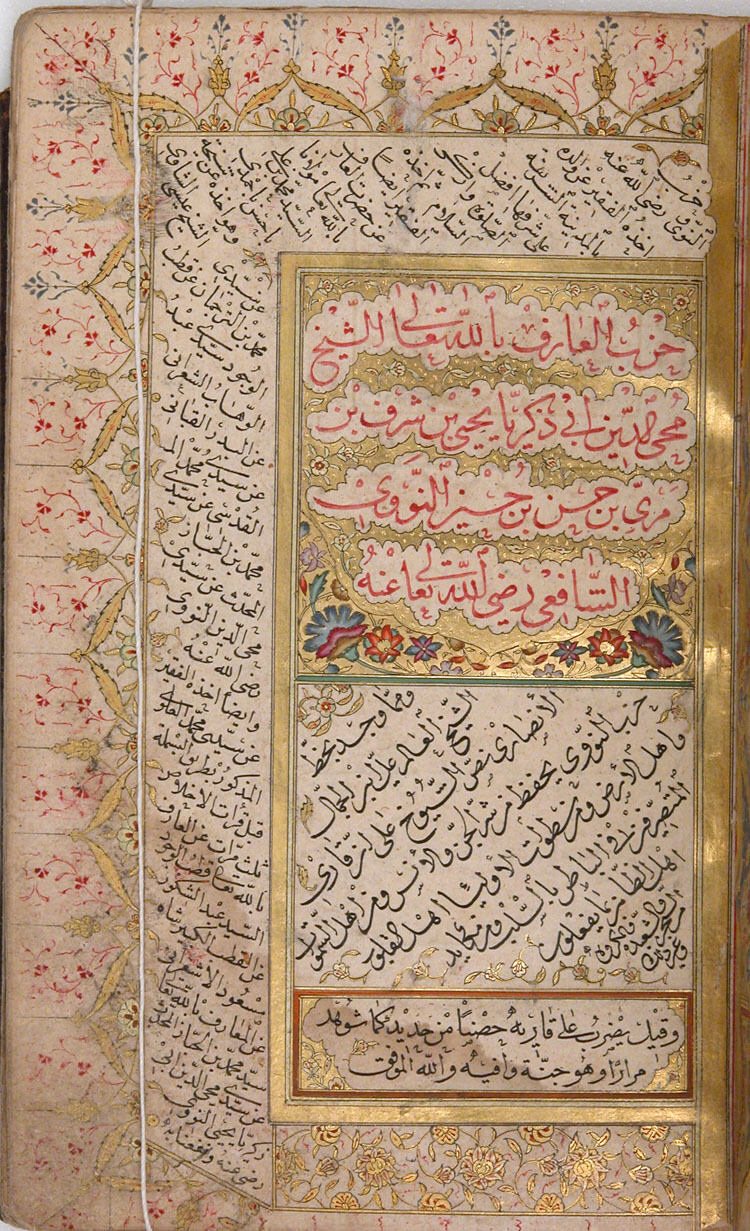 Non-illustrated manuscript; Codices